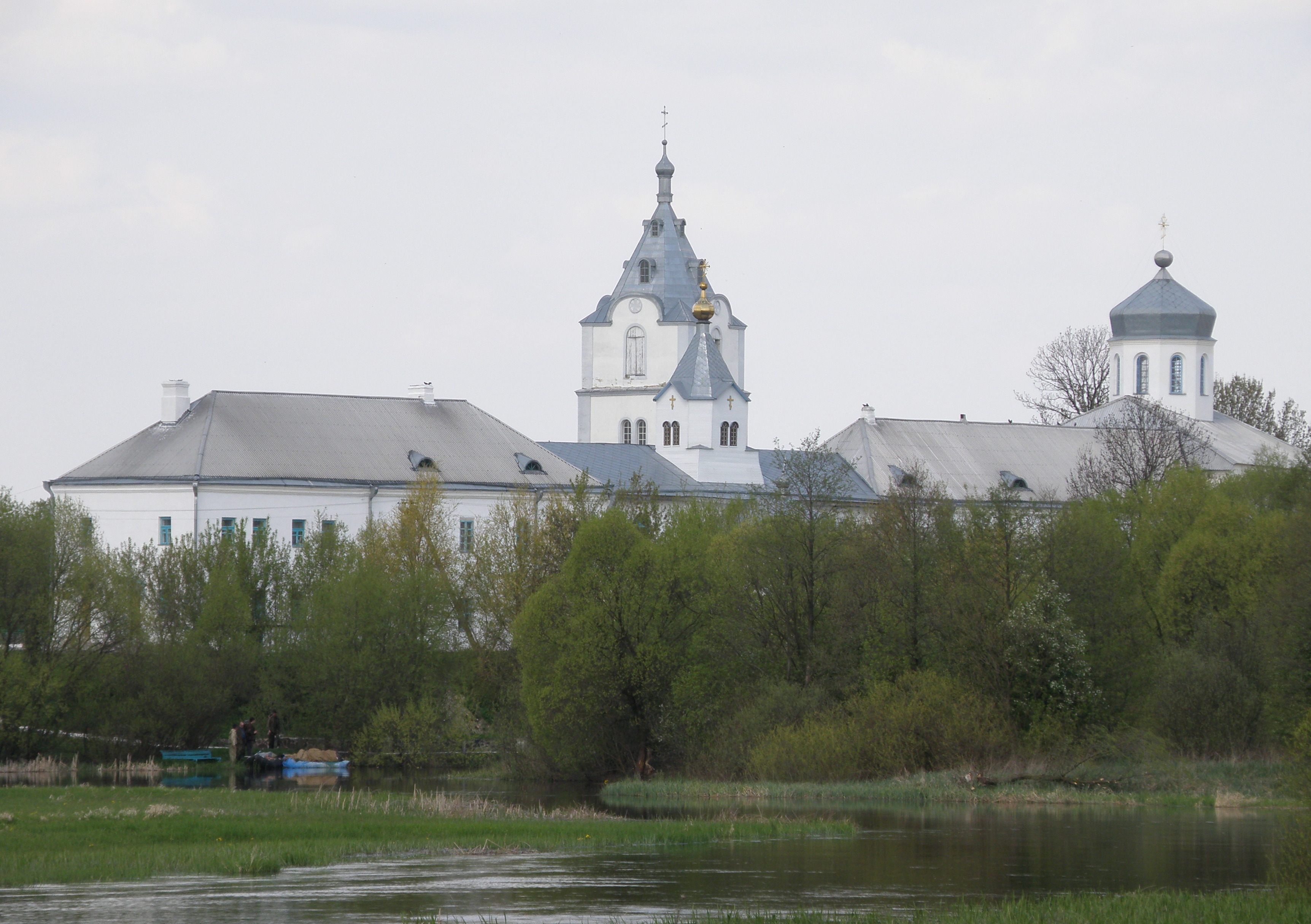 Friary in Milzi village in Volun oblast (Ukraine).